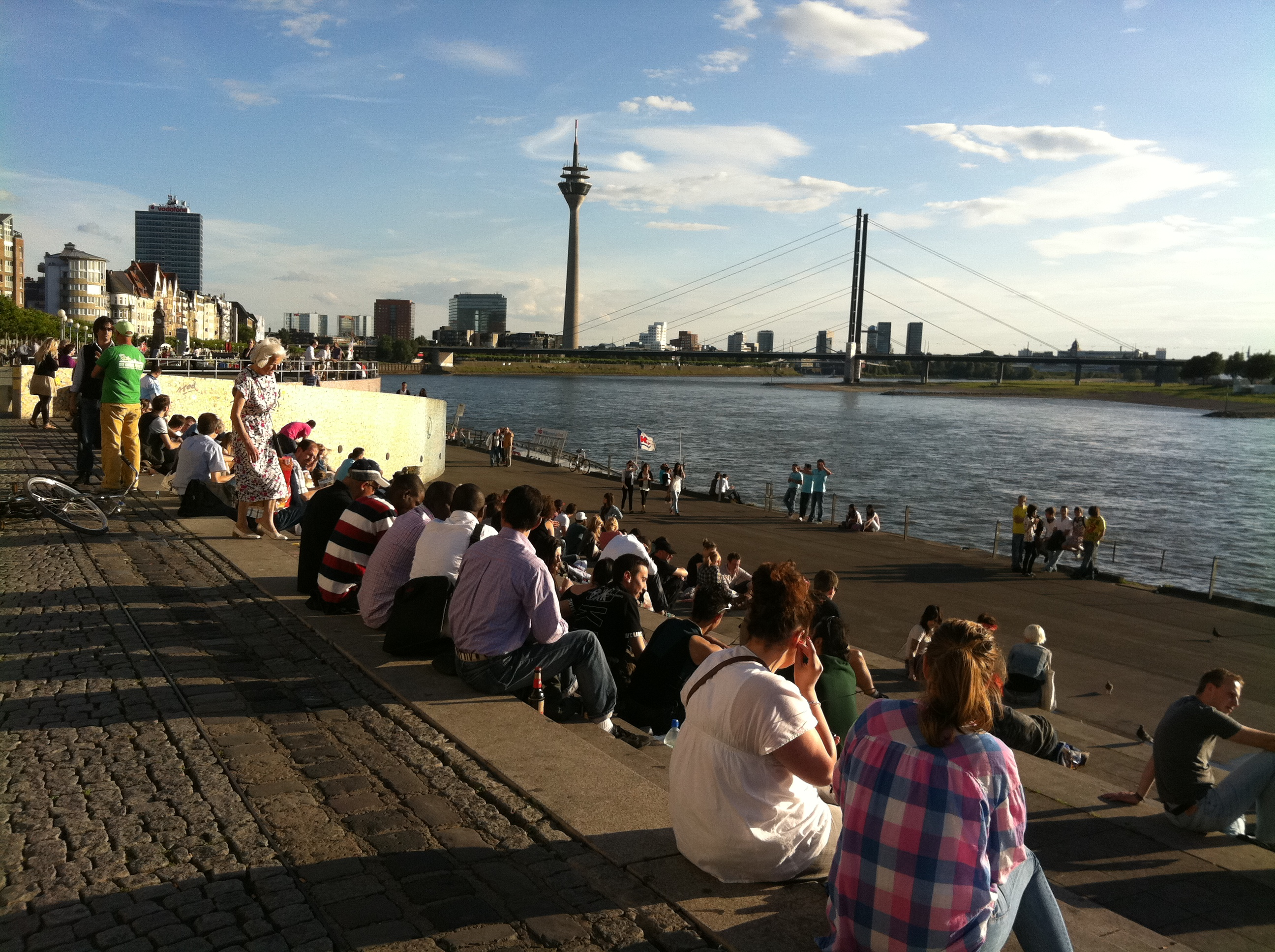 Communicating the Museum conference 2011, with a Wikipedia Lounge